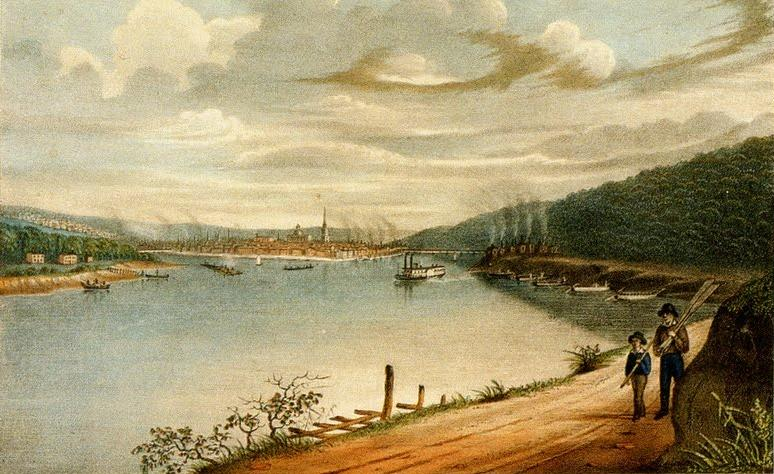 Detail from William Coventry Wall's print, "Great Conflagration at Pittsburgh". The Ohio River in Pennsylvania, before the Great Fire of Pittsburgh.